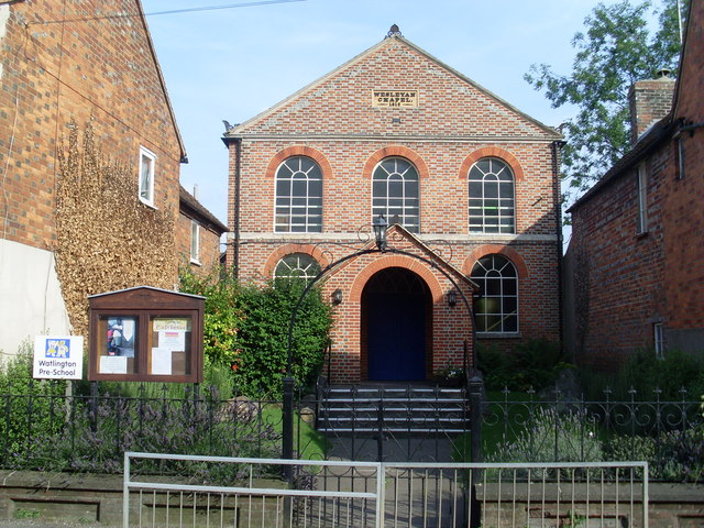 Methodist Church, Shirburn Street, Watlington, Oxfordshire: built in 1812 as a Wesleyan chapel